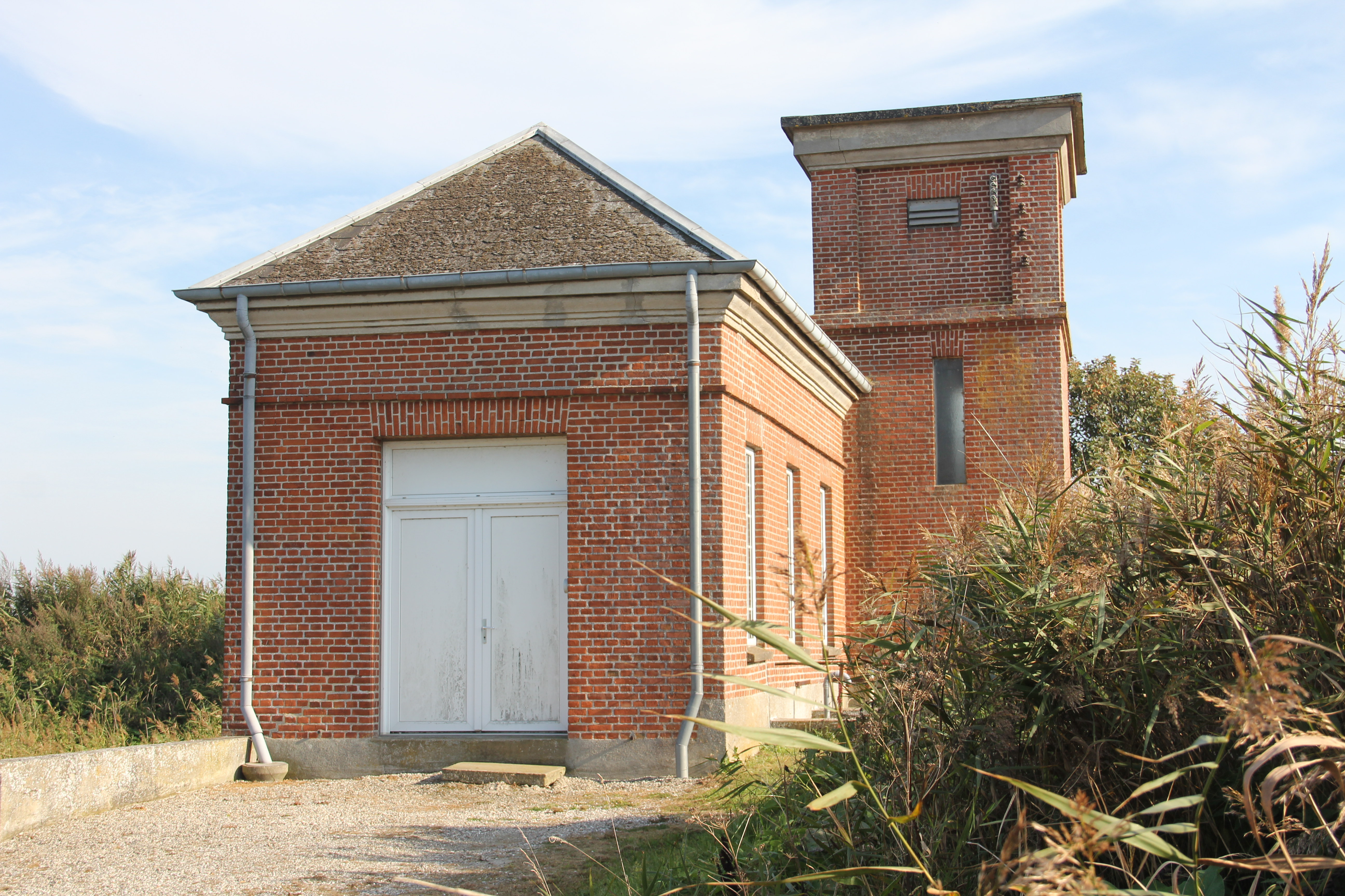 Avnø Pumping Station from west